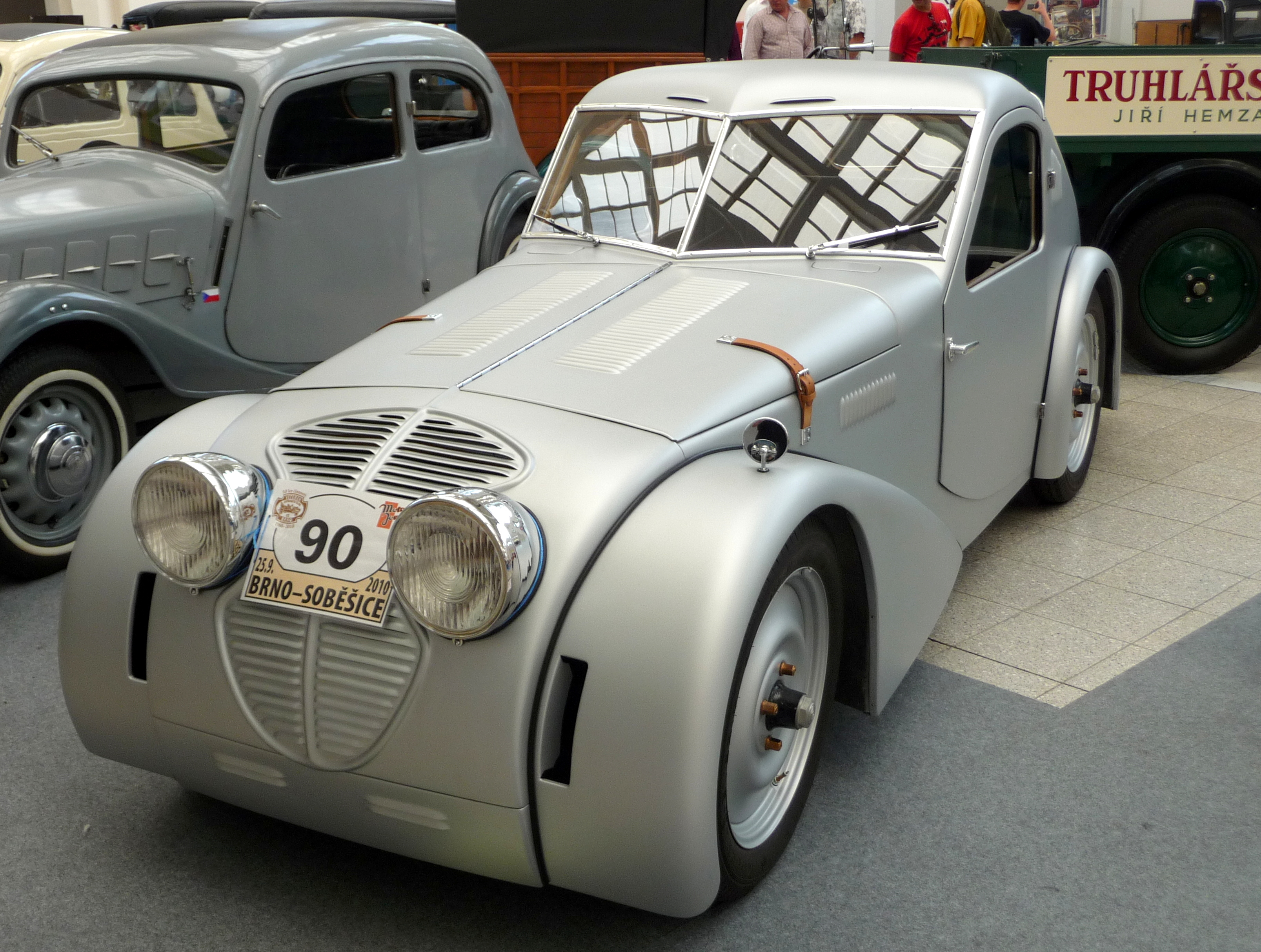 Zbrojovka Z 4 "1000 mil Československých" rallye special with aluminium body, year 1934, Classic Show Brno 2011, The Brno Exhibition Grounds -10 -5 -3 -2 ◄ ► +2 +3 +5 +10